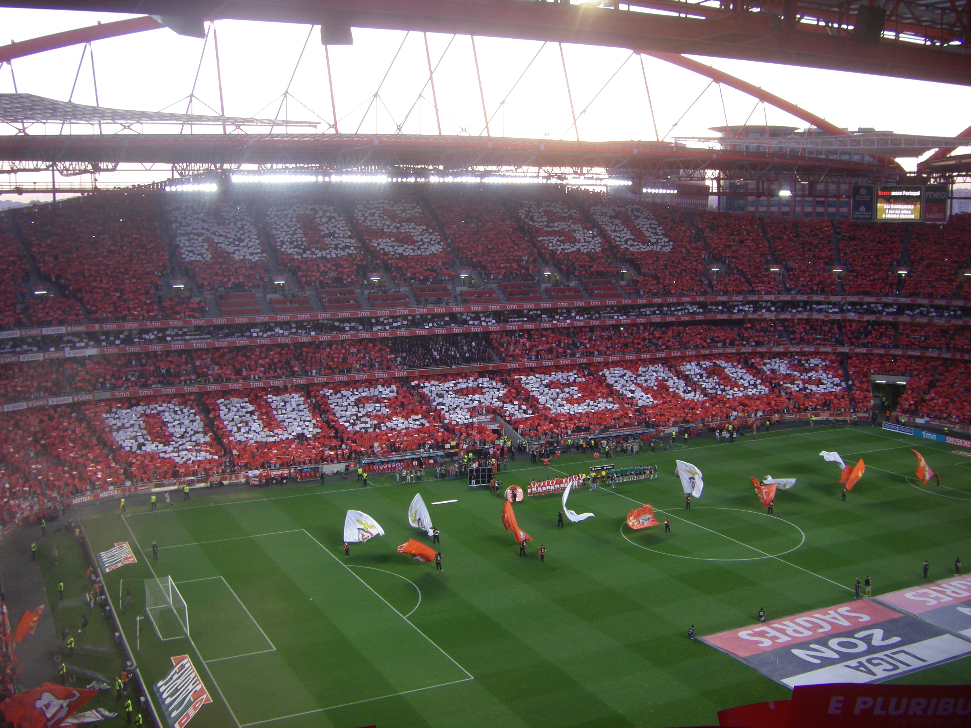 Choreo of Benfica-fans before derby-kick-off on April 21, 2013